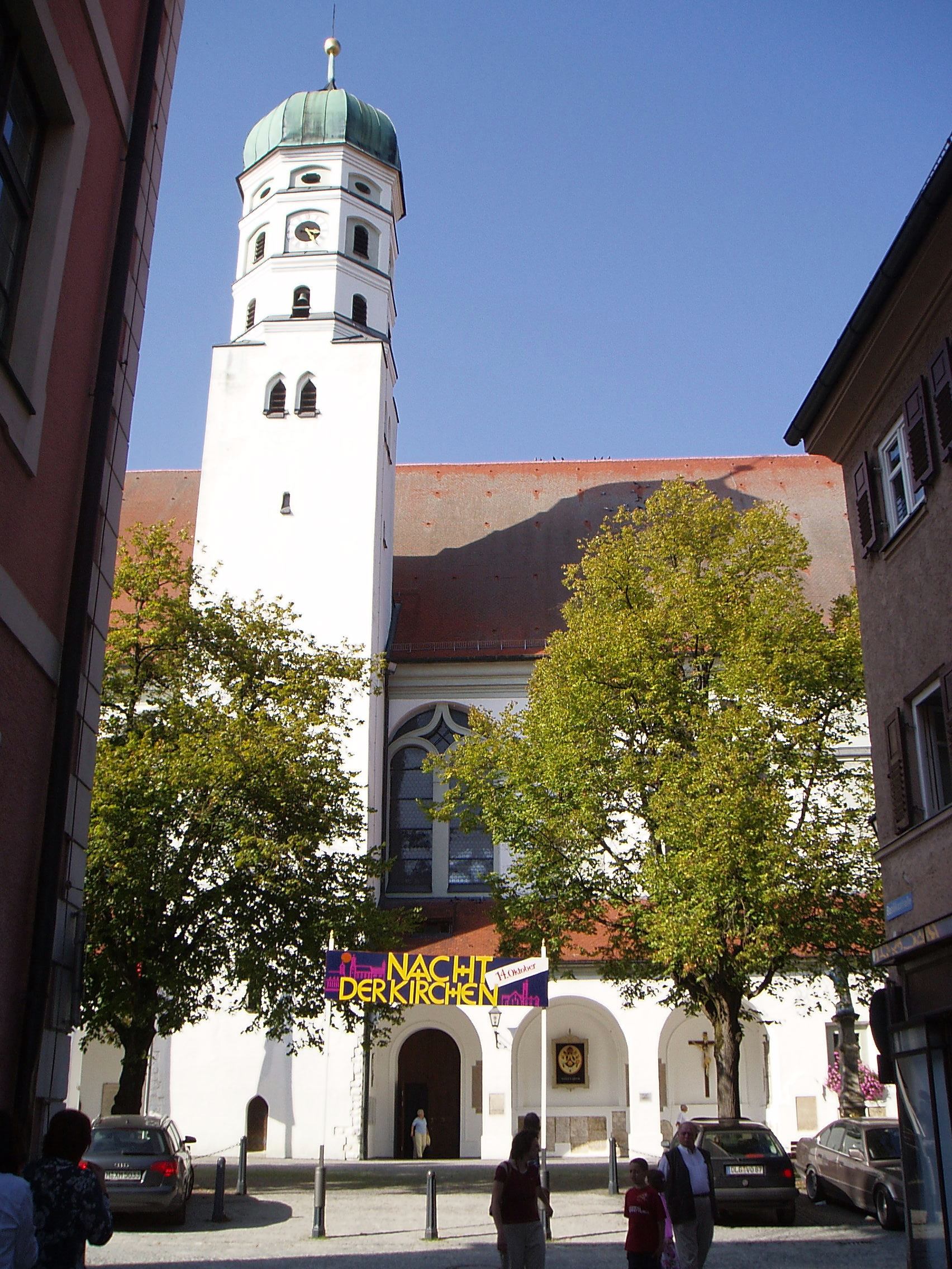 Dillingen an der Donau, Parish Church of St Peter. View of the south façade and bell tower from the castle.